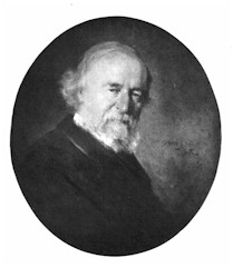 Walter Chalmers Smith (1824-1908)